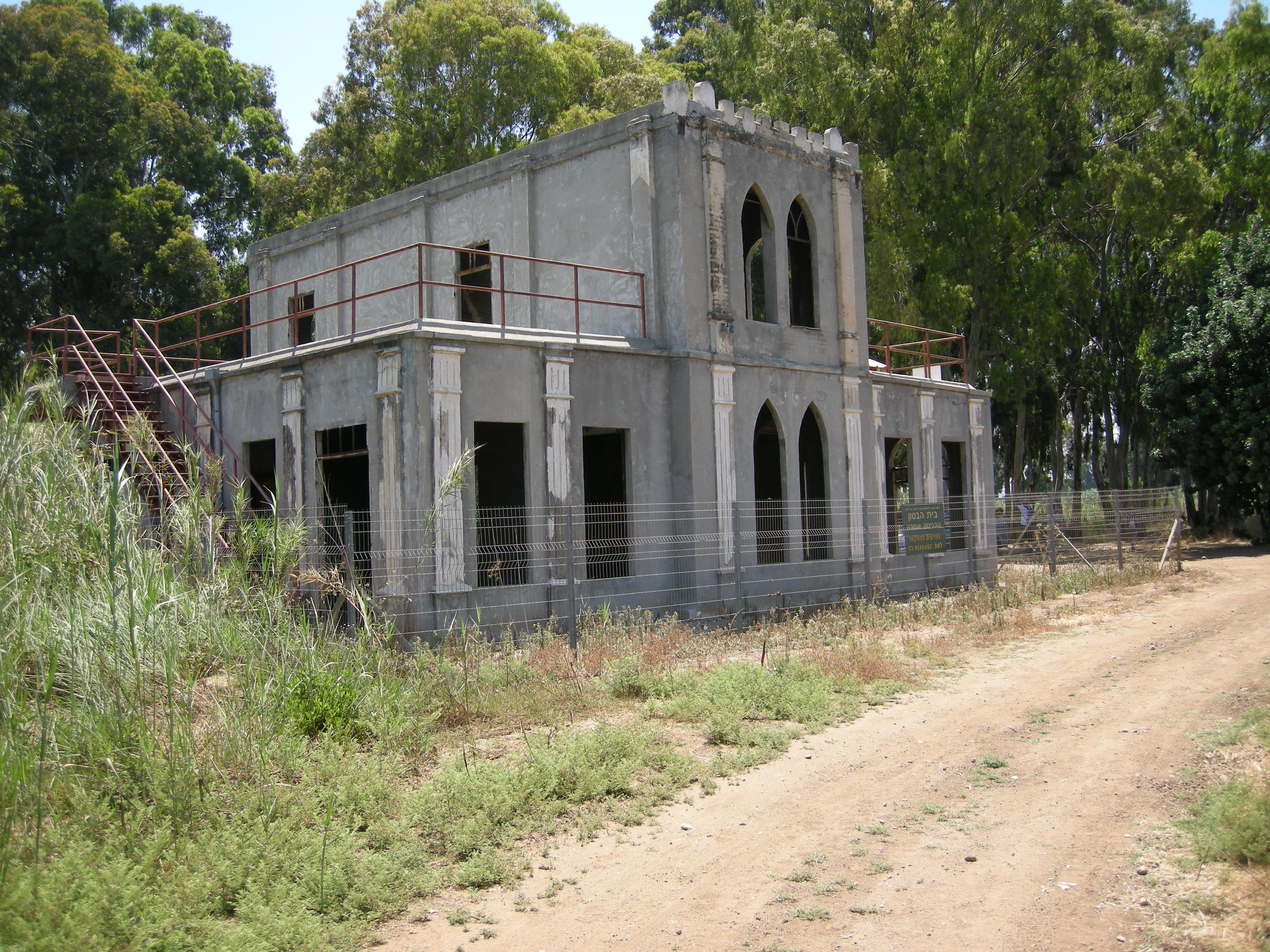 Israel National Trail